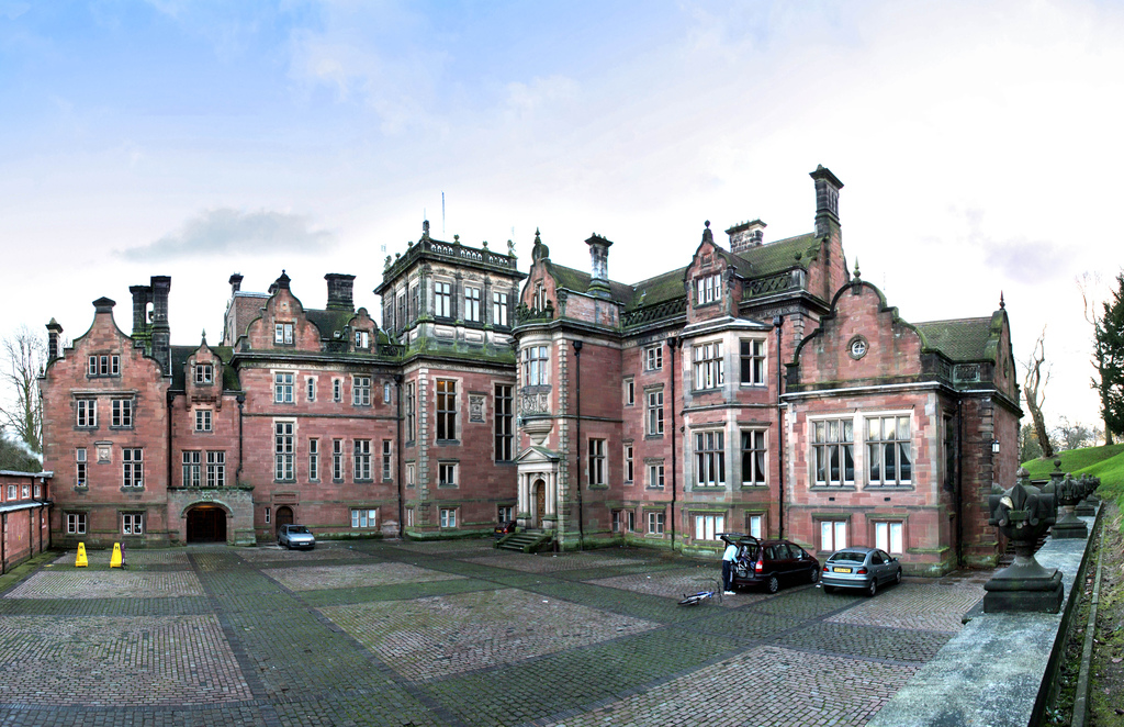 Keele Hall on an autumn Sunday afternoon. Four segment (v) panorama, quite underexposed, composition is a little underwhelming. Some small stitching errors have been clumsily corrected in Photoshop. Best viewed (perhaps) very very large. I forgot to reattach the EXIF data: 1/30 at f/5, 18mm, ISO-200, 26/11/2006 16:48h.